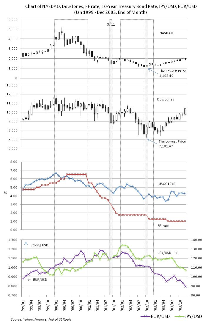 Chart of NASDAQ, DJI, FF rate (target), 10-Year Treasury Constant Maturity Rate, JPY/USD, and EUR/USD from January 1999 to December 2003 (End of month)